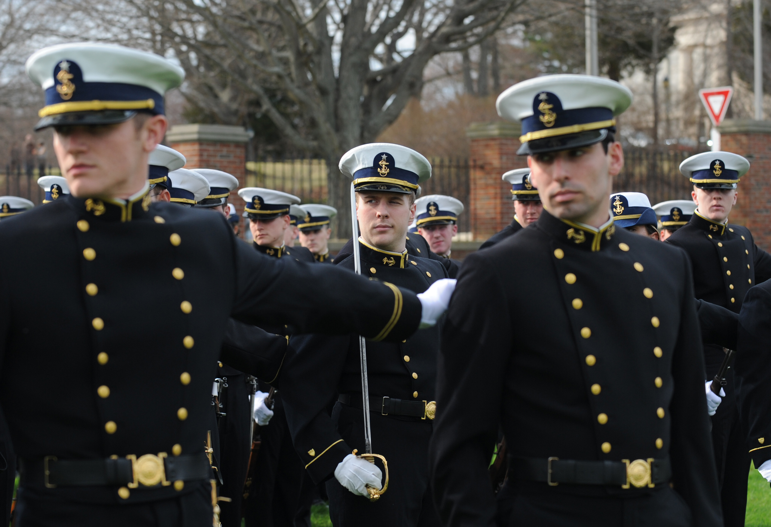 Coast Guard cadets in fall parade uniforms dress the line on the Washington Parade Field at the academy in New London, Conn.